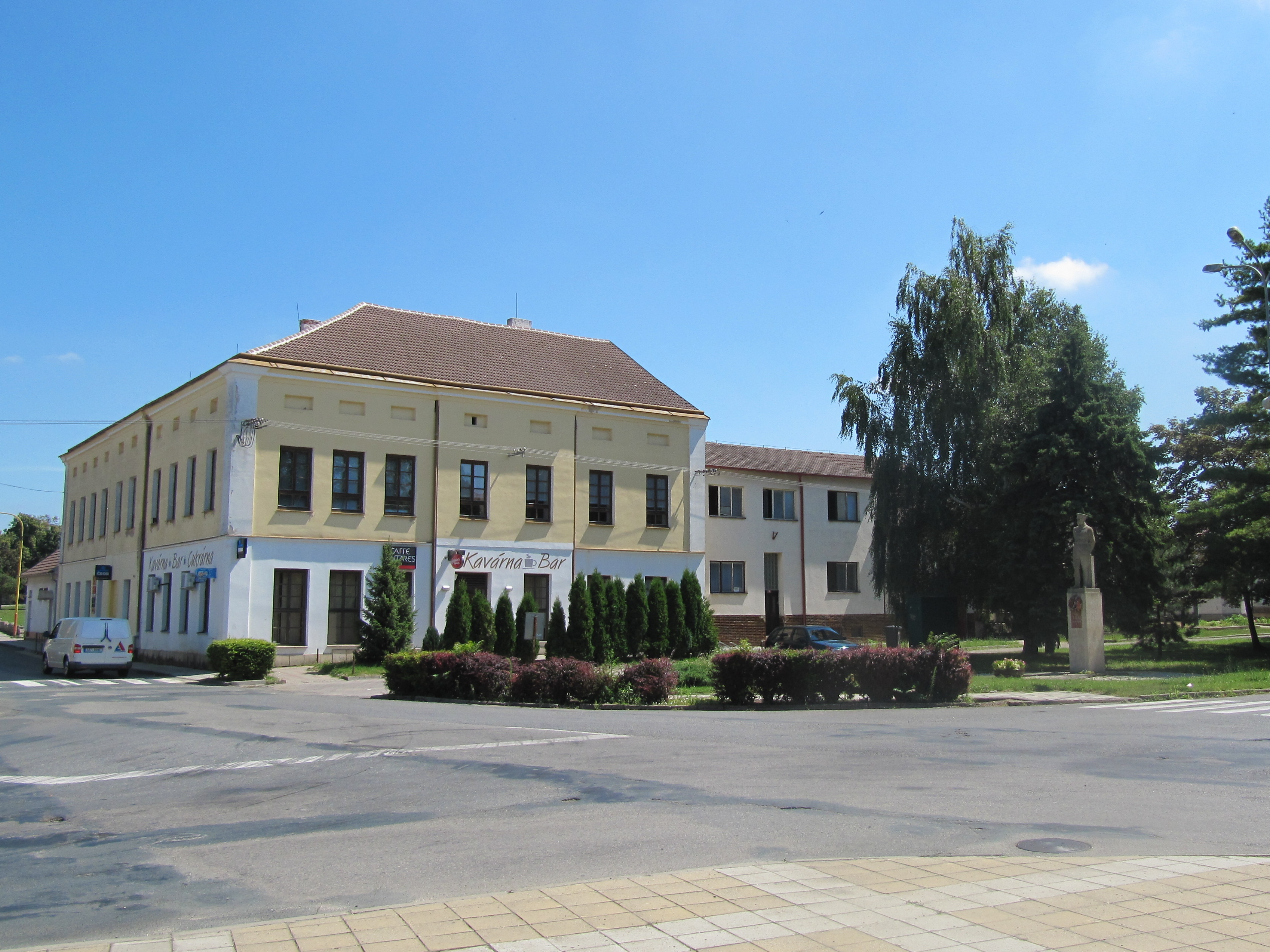 Moravská Nová Ves in Břeclav District, Czech Republic. Main intersection and statue of Tomáš Garrigue Masaryk . This photograph was taken within the scope of the third year of the 'Czech Municipalities Photographs' grant.